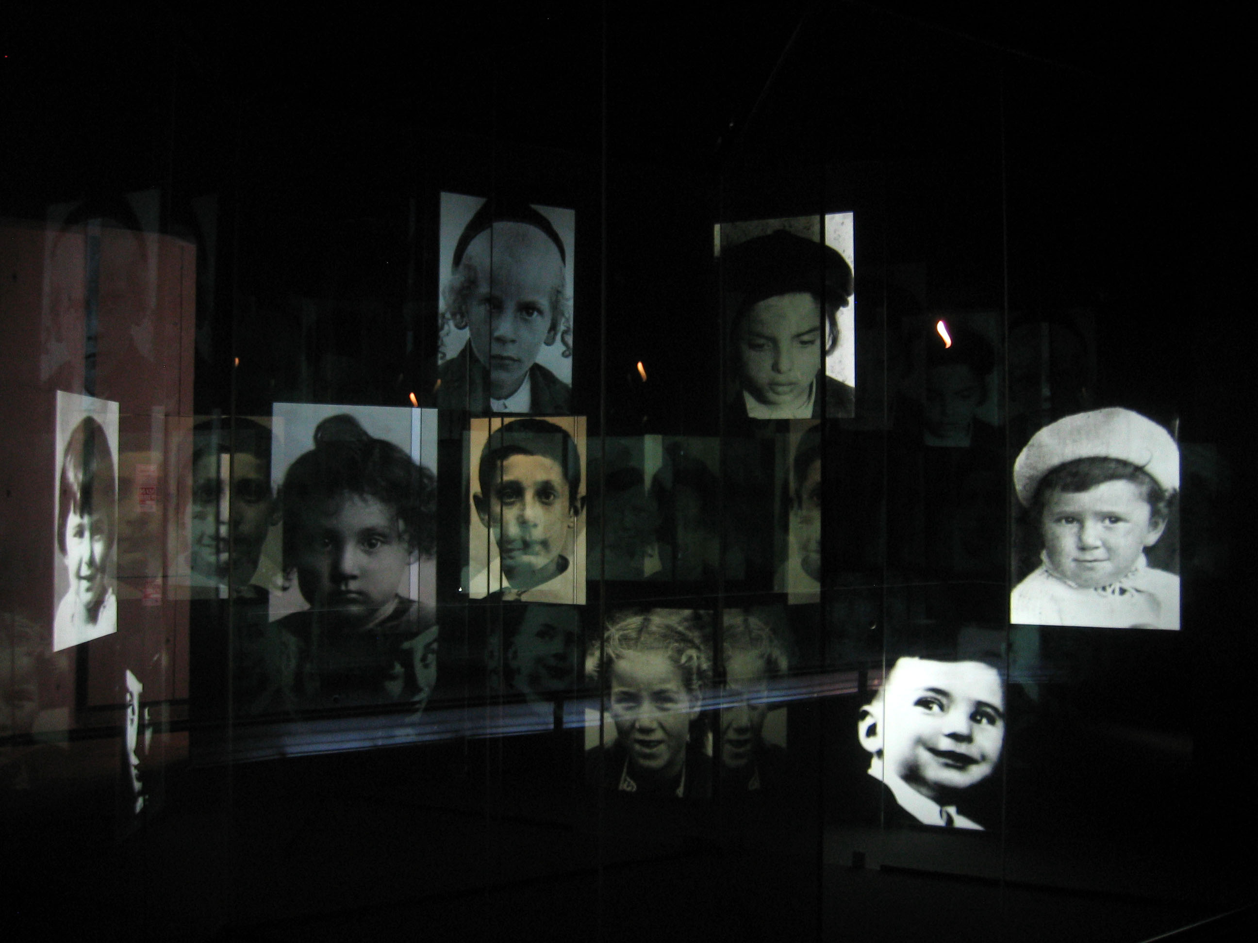 Children's Memorial, Yad Vashem